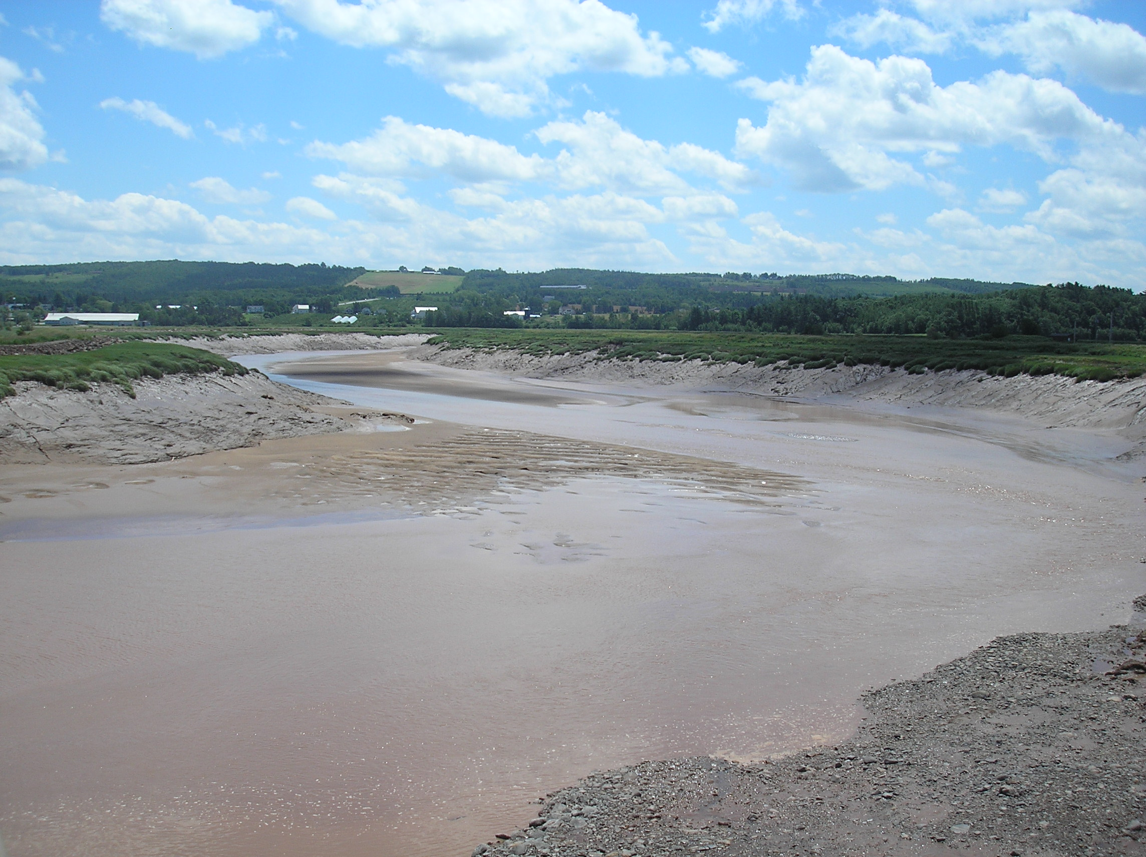 Cornwallis River near low tide. picture taken by Jessie Blake. Public domain